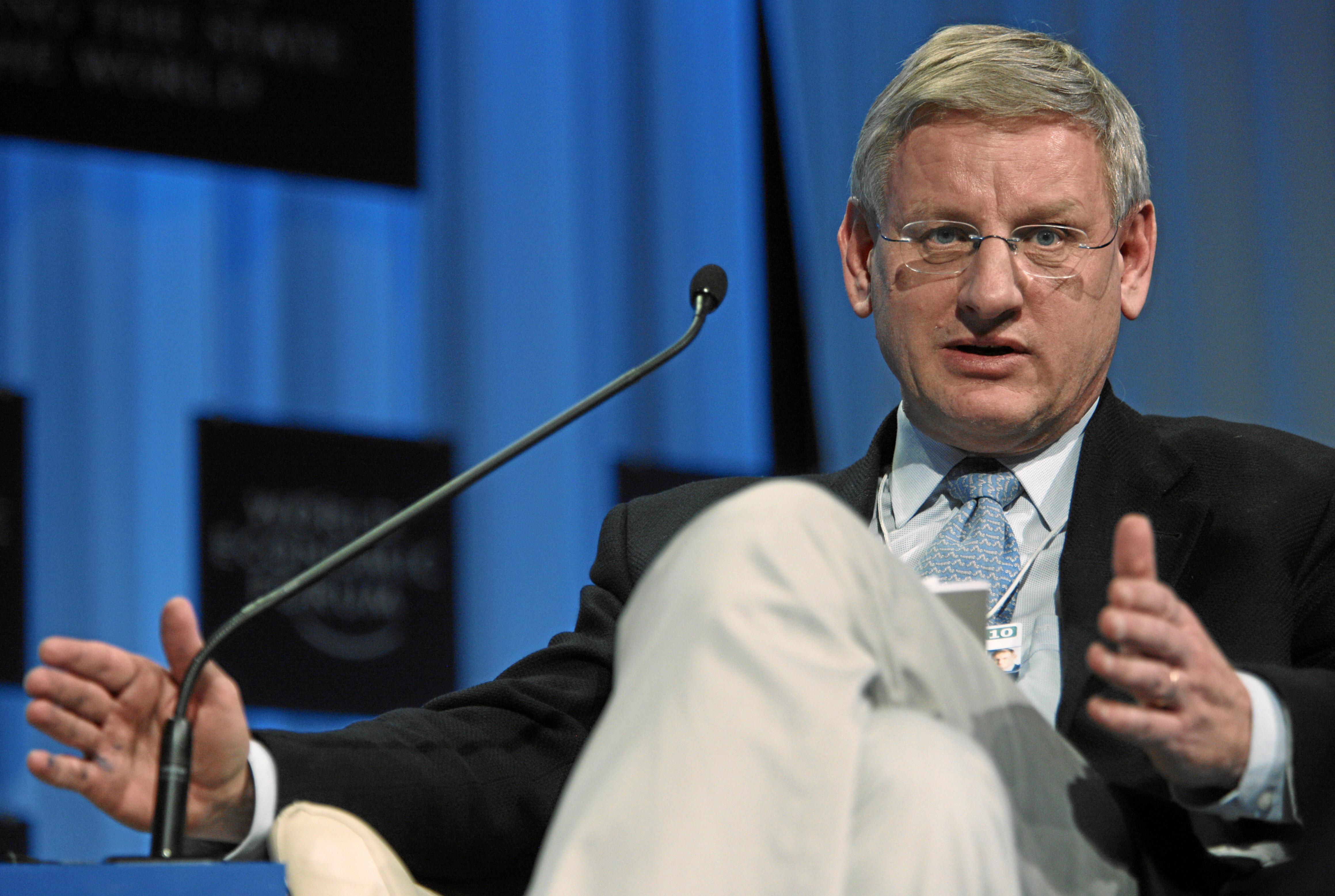 DAVOS/SWITZERLAND, 29JAN10 - Carl Bildt, Minister of Foreign Affairs, Sweden, speaks during the session 'Rebuilding Peace and Stability in Afghanistan' in the Congress Centre at the Annual Meeting 2010 of the World Economic Forum in Davos, Switzerland, January 29, 2010.